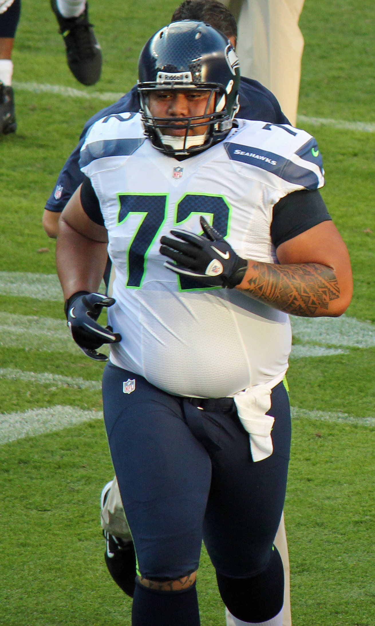 Deuce Lutui, a player on the National Football League.